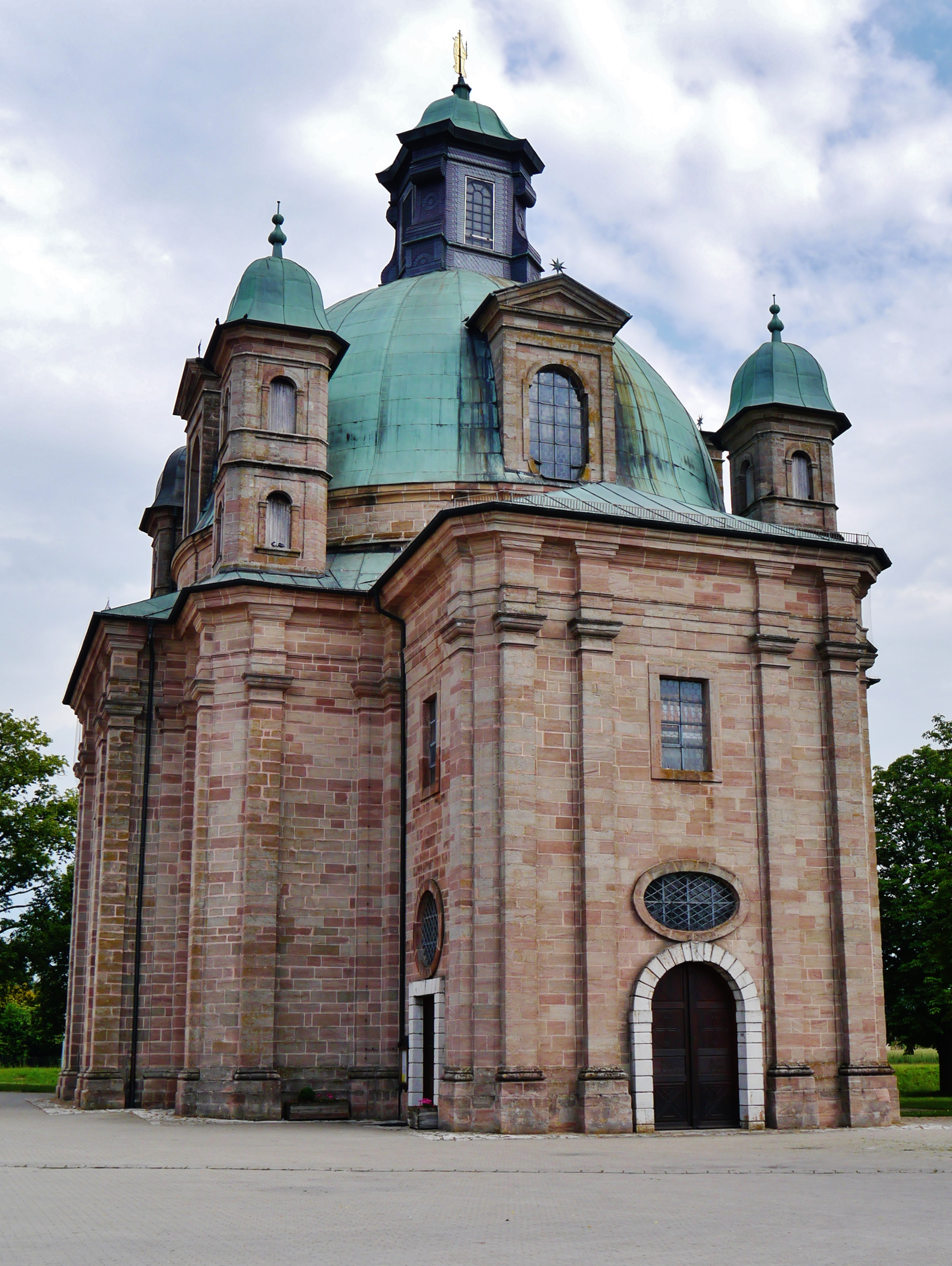 Pilgrimage Church of Mary Help, Freystadt, Bavaria, Germany